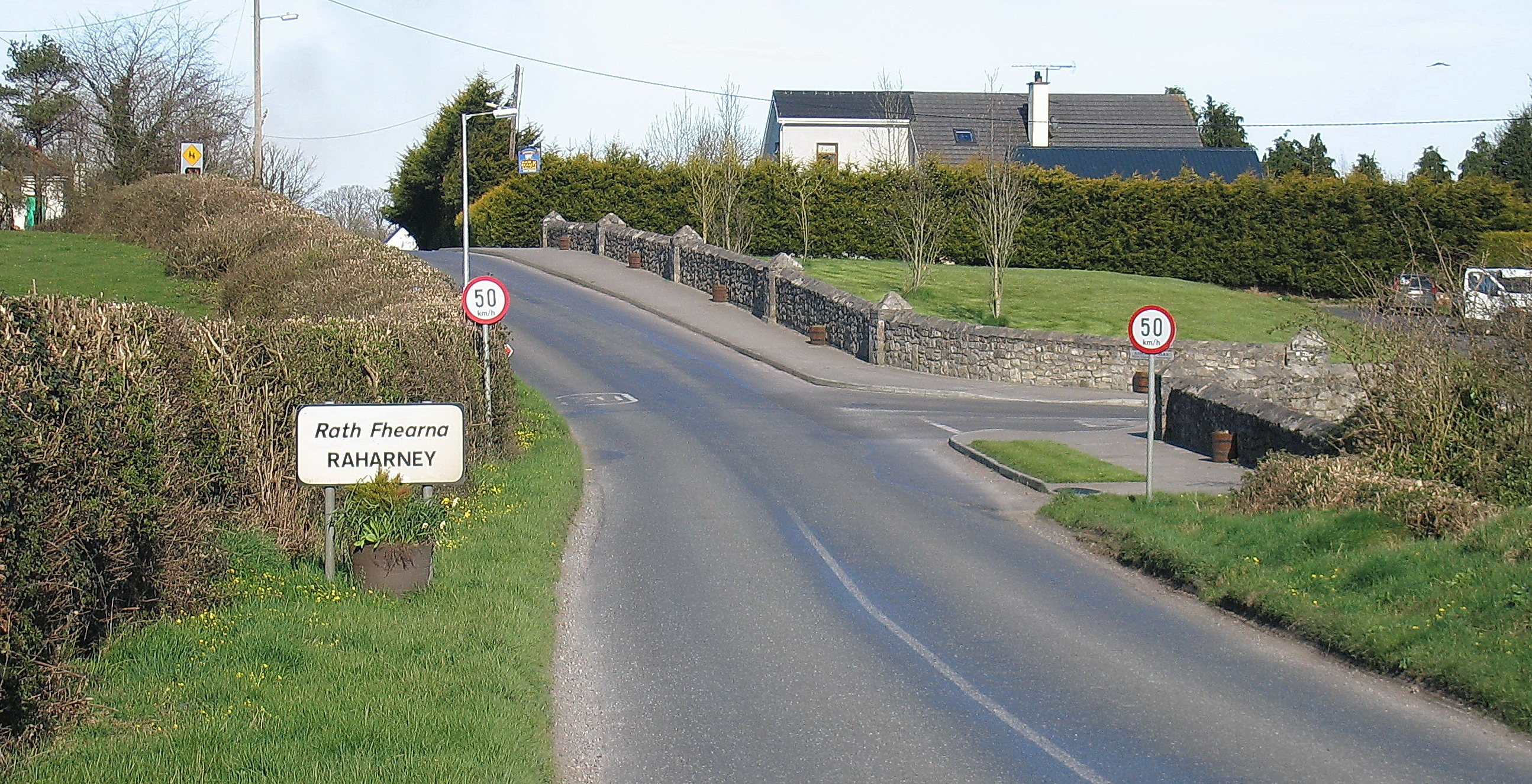 Raharney, County Westmeath